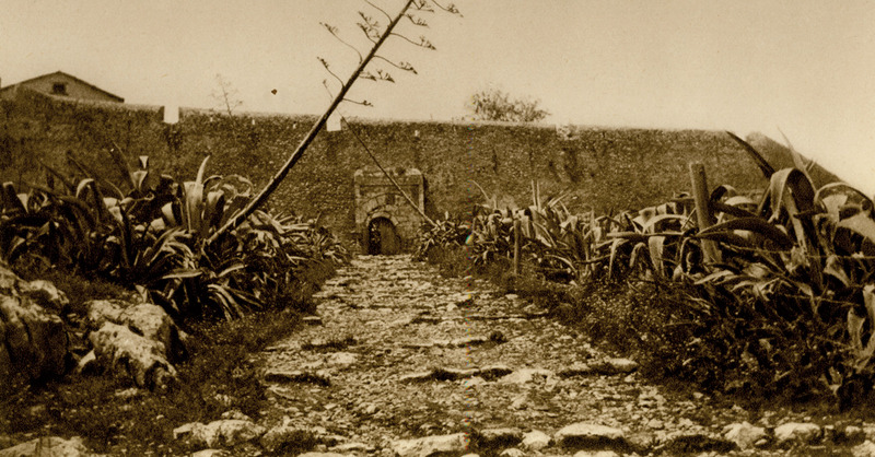 Navarin – L’entrée du vieux fort